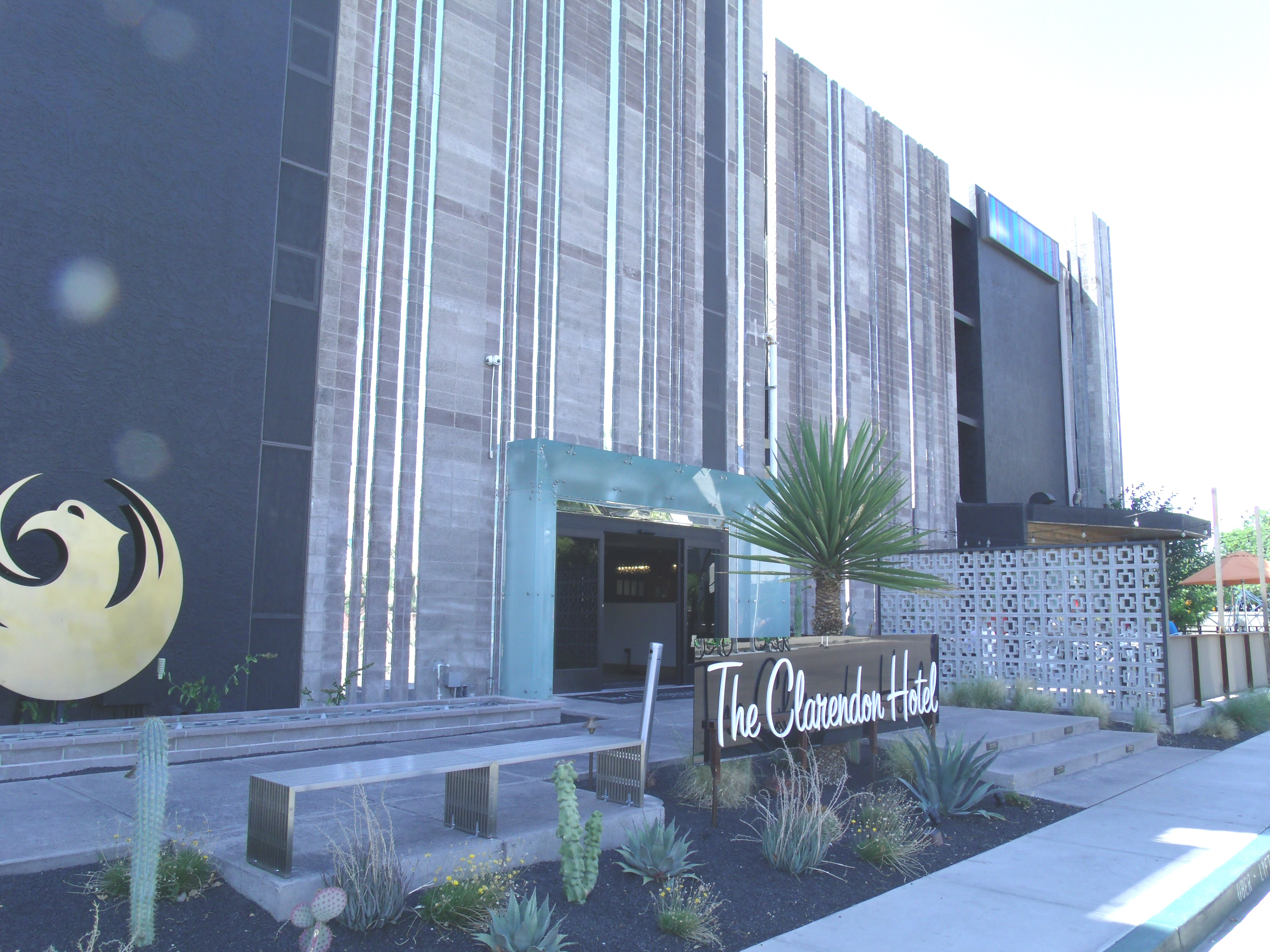 The Hotel Clarendon (now Clarendon Hotel) where on June 2, 1976, Arizona Republic journalist Don Bolles was supposed to meet with a prospective informant named John Harvey Adamson. The meeting never took place and instead Adamson placed six sticks of dynamite under Bolles car in the parking lot blowing the journalist to pieces. The hotel is located 401 W. Clarendon Dr. Arizona republic